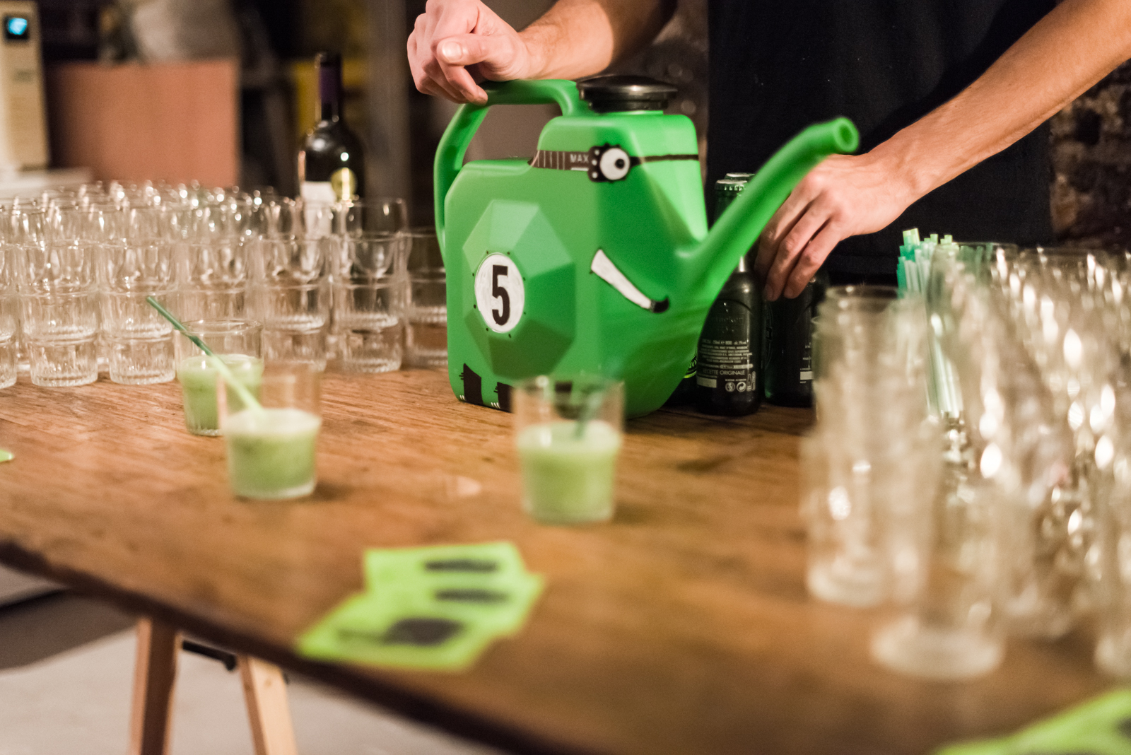 Evernote Meetup Paris